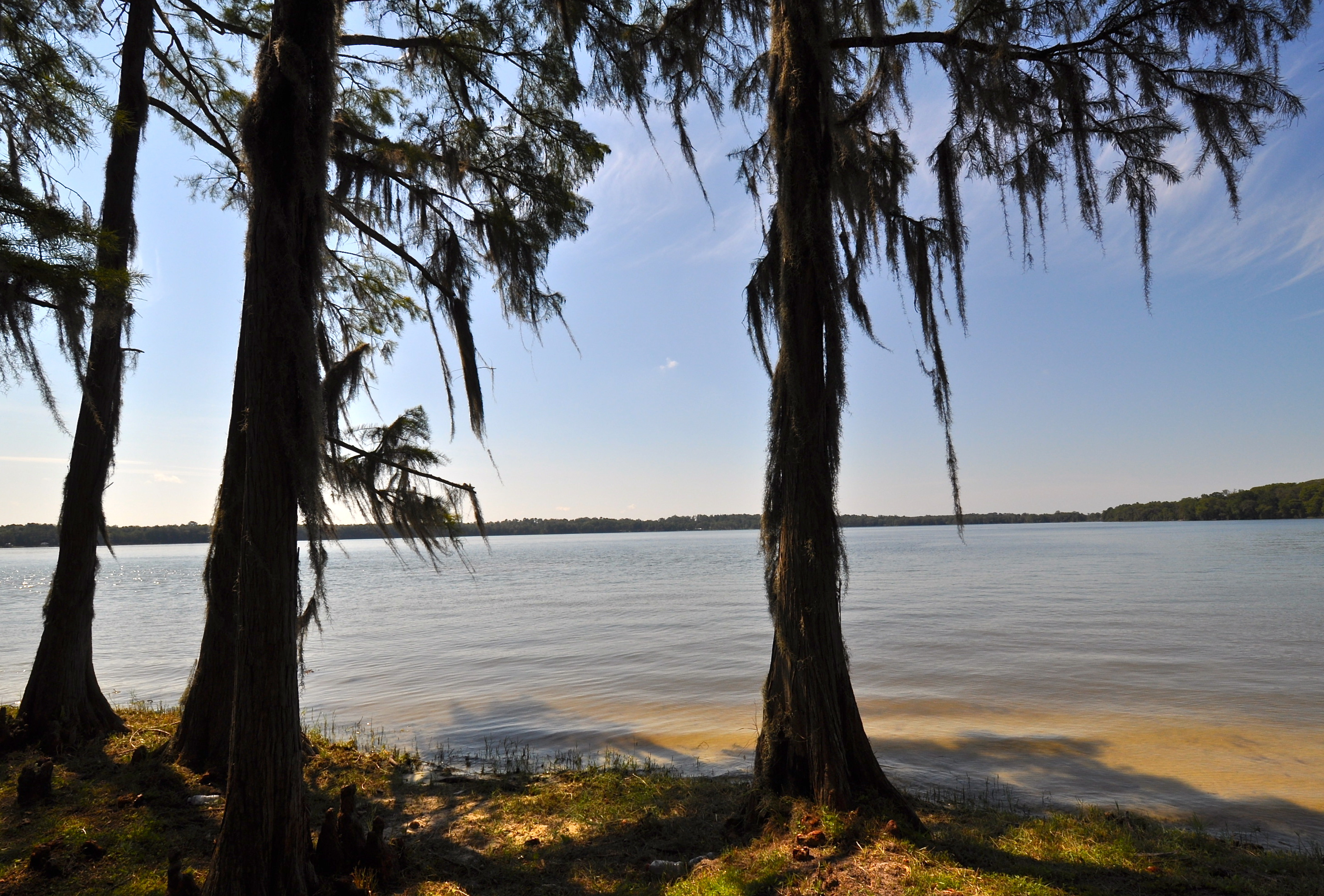 Looking out onto Lake Jackson from the Florala State Park, Alabama.